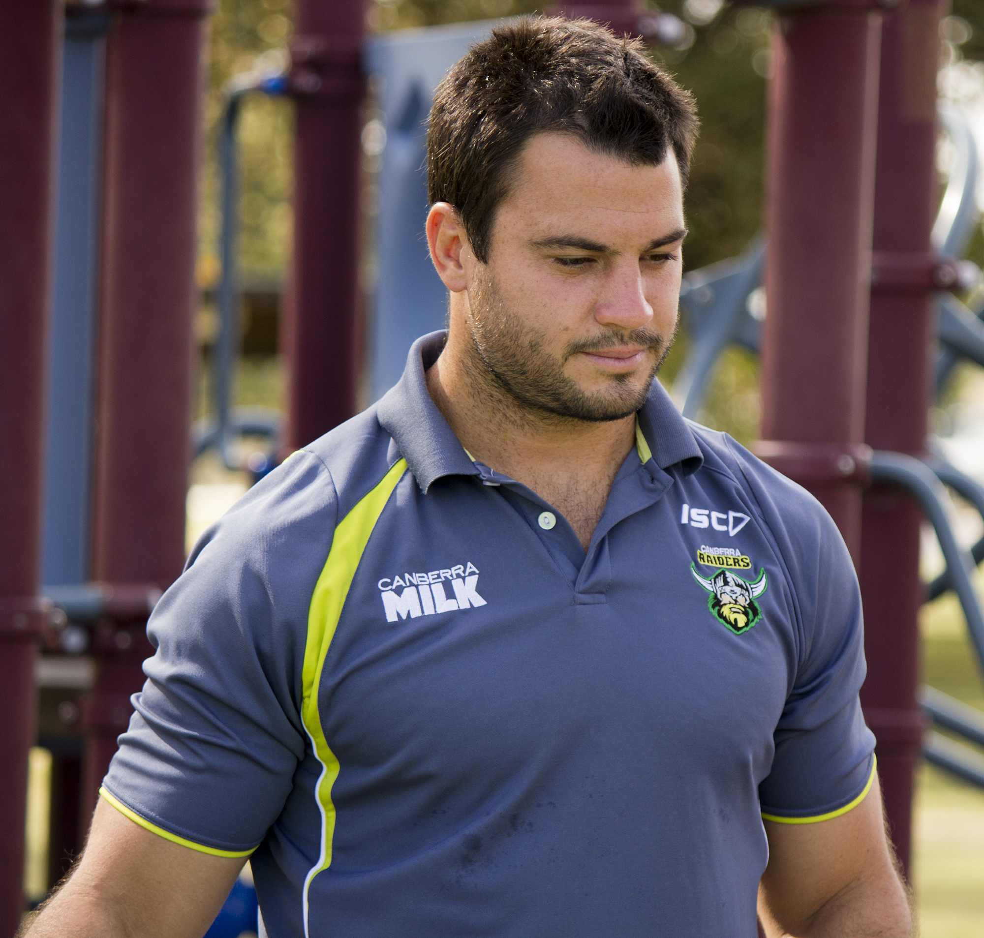 David Shillington, Canberra Raiders front-row, at Bolton Park in Wagga Wagga, New South Wales.